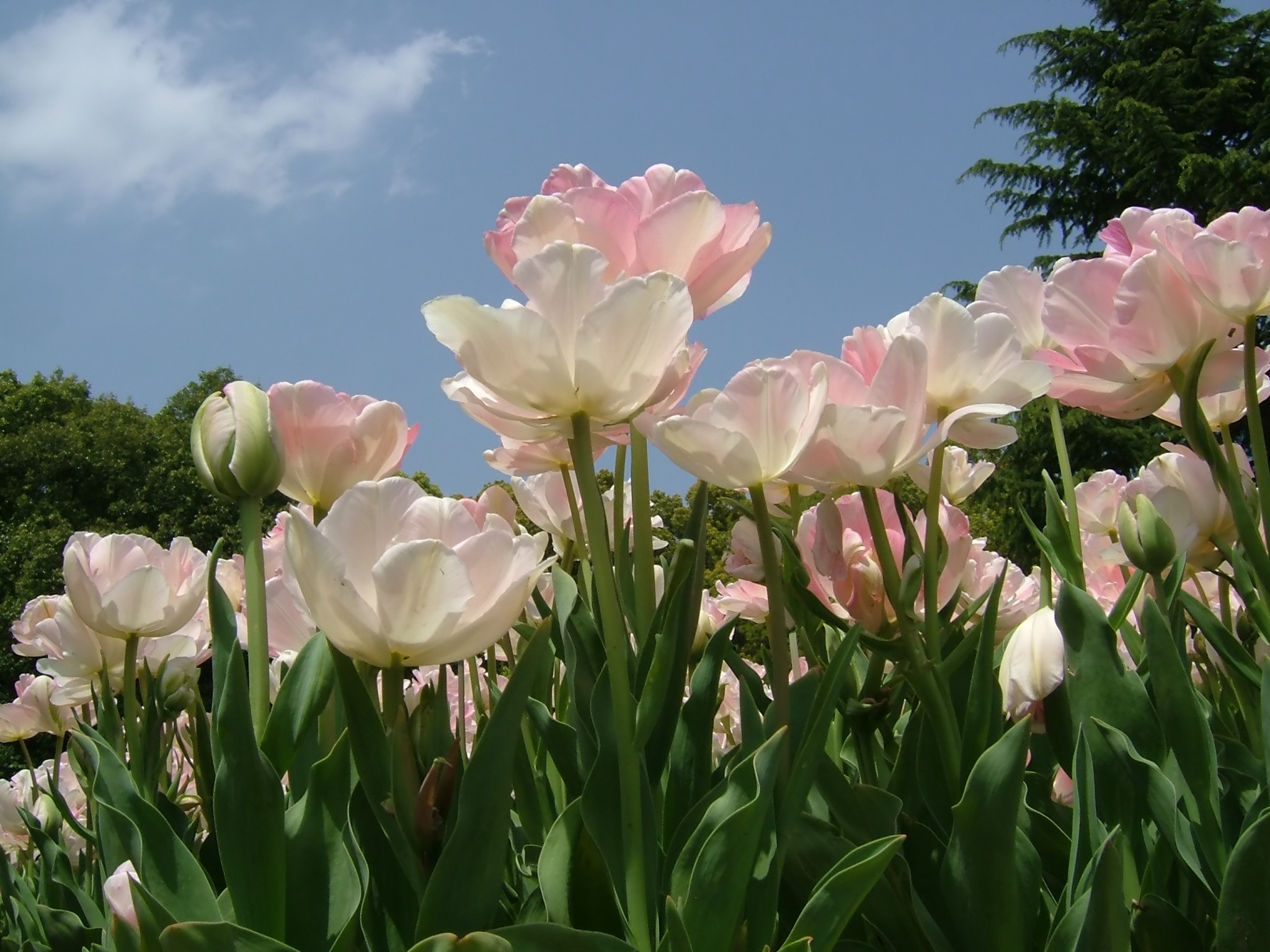 Double Late Tulip cultivar 'Angelique' (D.W.Lefeber 1959), Kyoto Botanical Garden